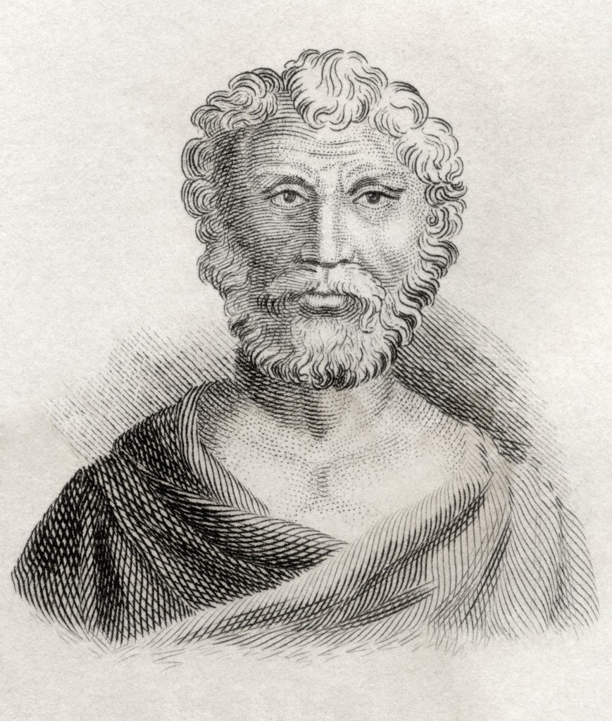 Quintus Junius Rusticus (lived c. 100-c. 170 AD), consul in 133 (consul suffectus) and 162 (consul ordinarius)